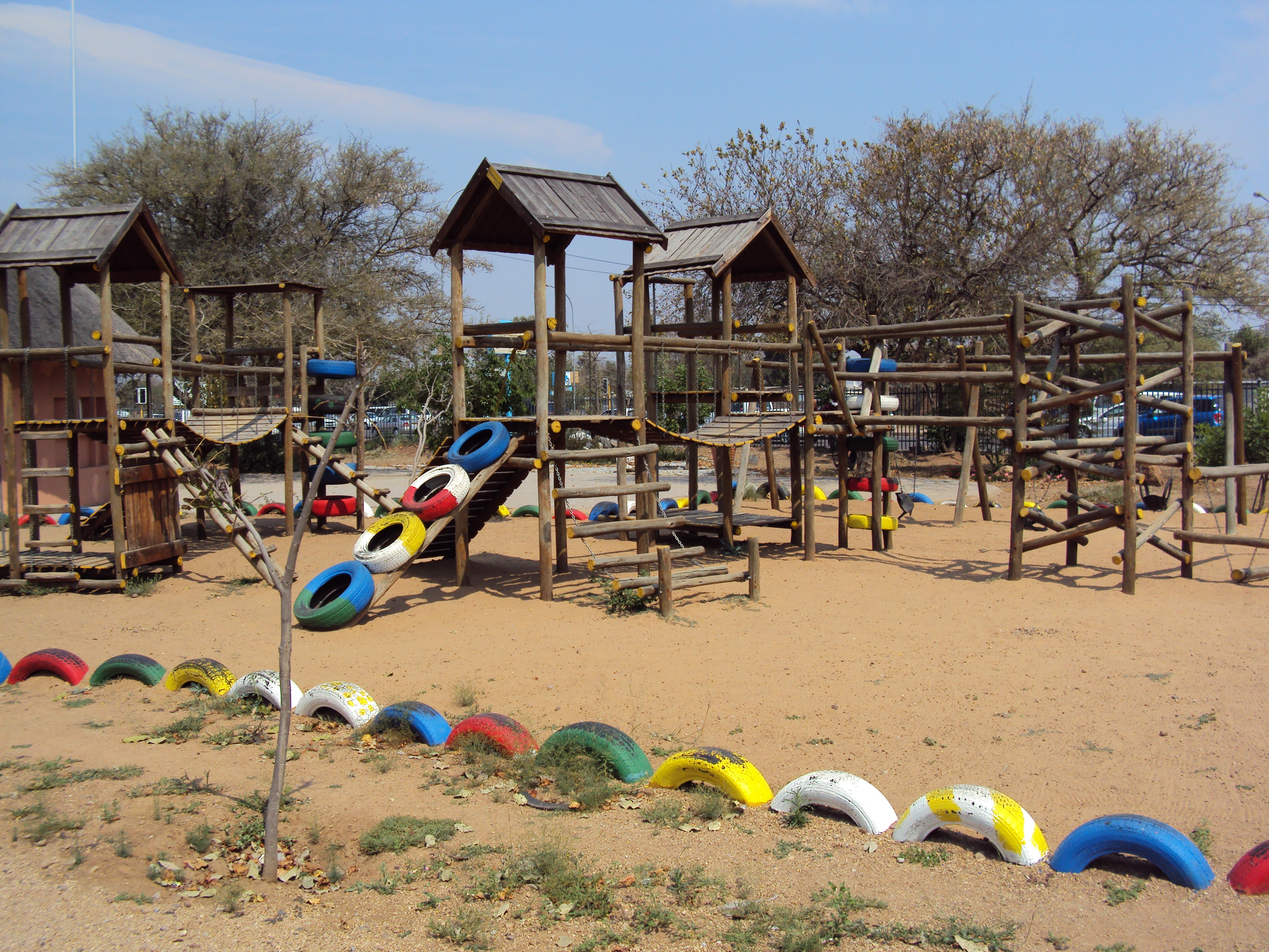 Somarelang Tikologo Community Playground Full Shot. Location: Plot 3491, Ext.4, Gabarone, Botswana